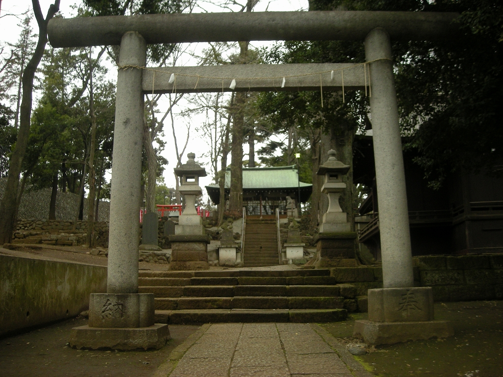 Mishuku Shrine in Setagaya Ward, Tokyo, Japan